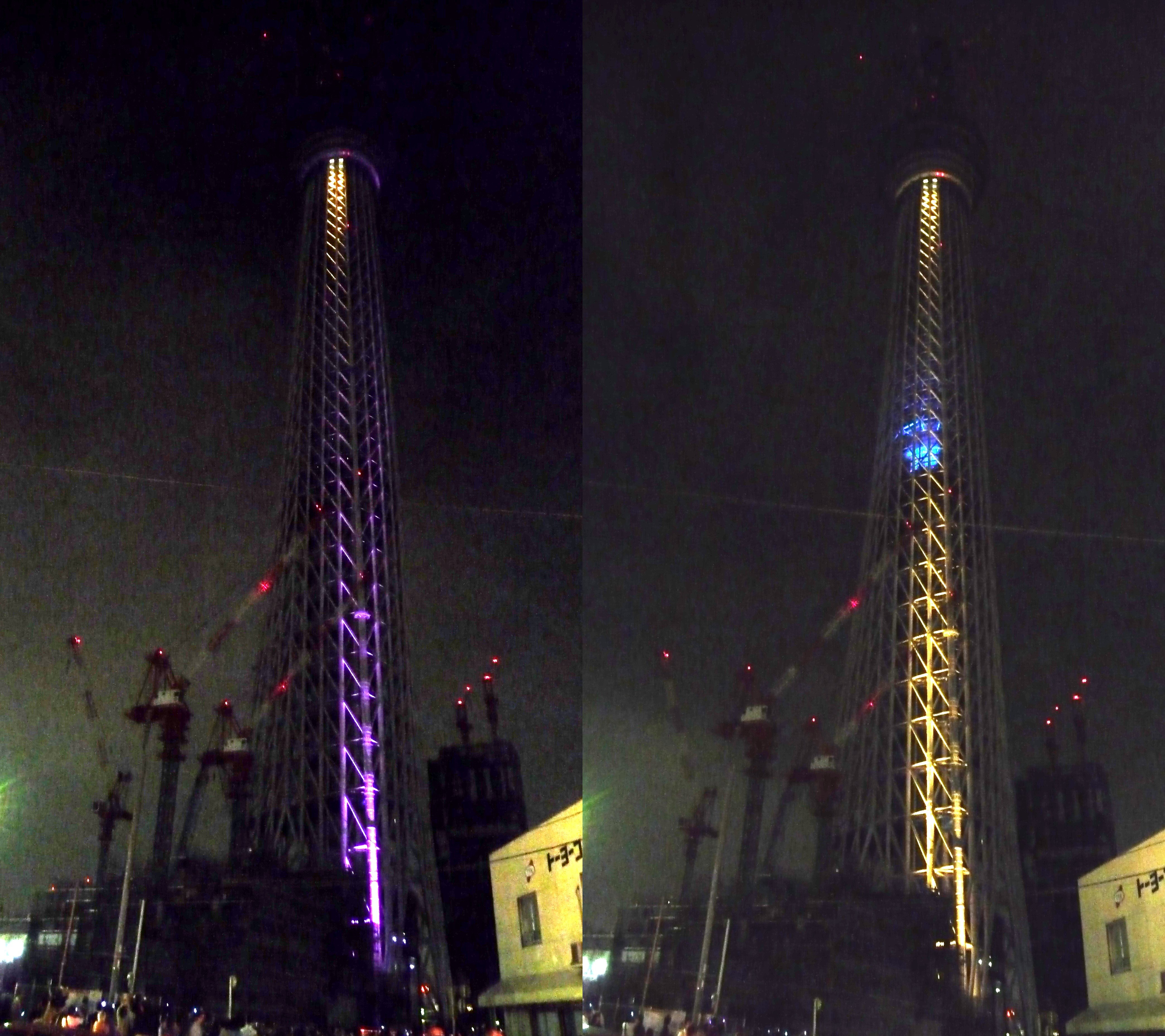 Light up illumination test on 13 October 2010, from 18:30 to 21:10, testing only this day. Lighting color purple, edo purple (江戸紫), represents miyabi (left), lighting color aqua blue represents iki (right).(as of tower height 488 m)